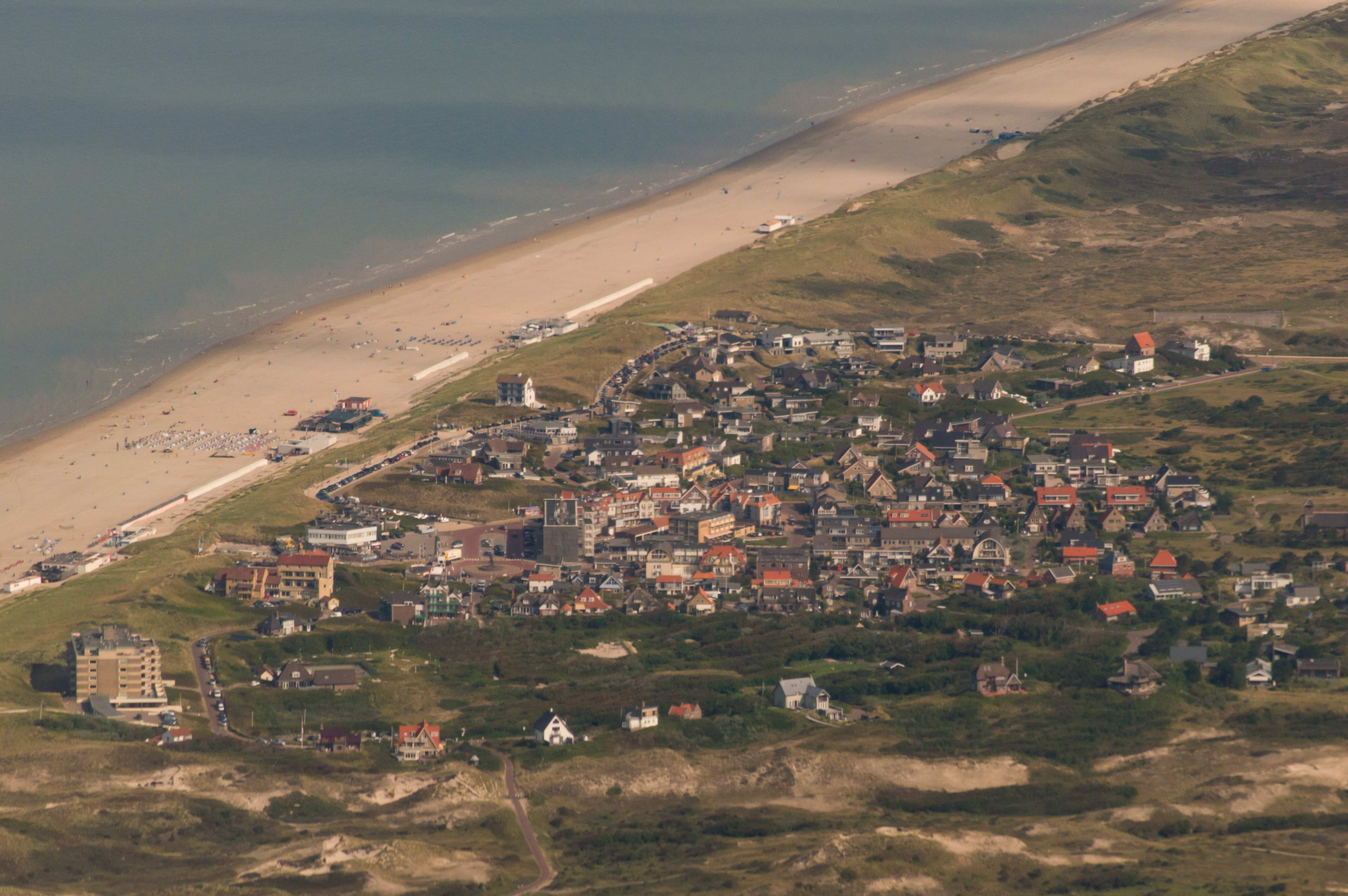 An aerial photograph of Bergen aan Zee (taken from inside an aircraft).